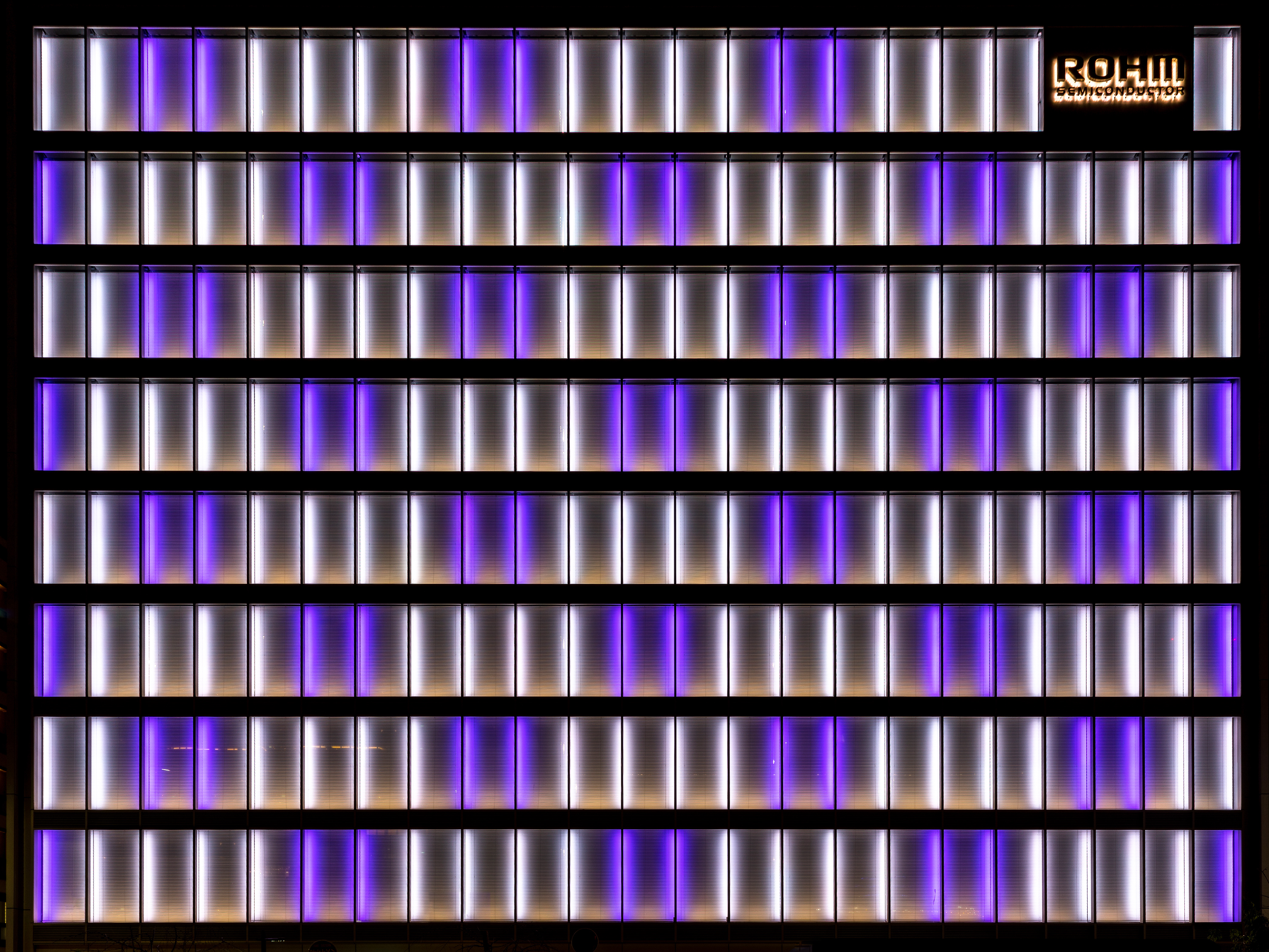 The illuminated white and purple facade of the office building of Rohm Semiconductor, a Japanese electronic parts manufacturer, in Shimogyo-ku, Kyoto, Japan.